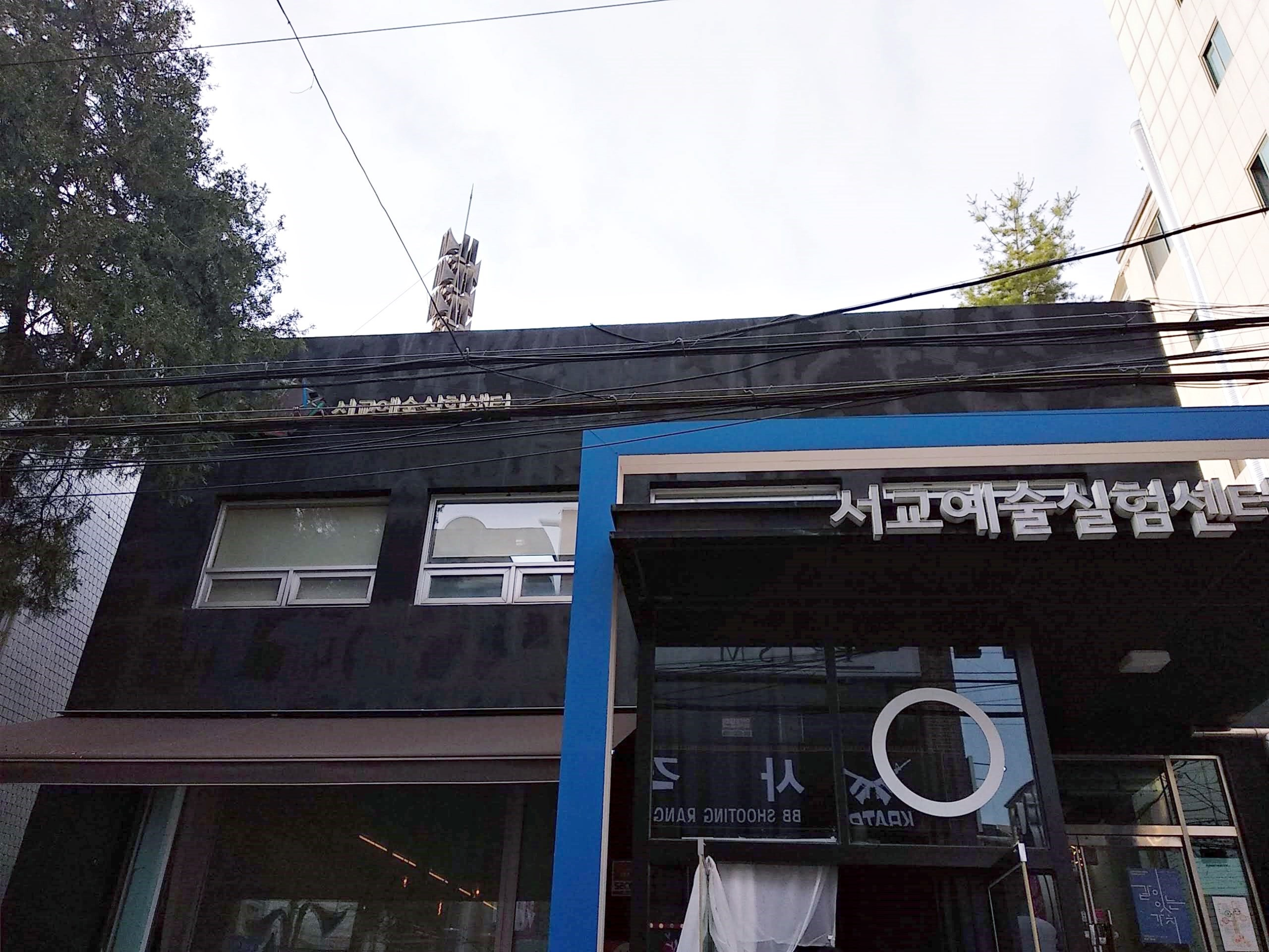 Seogyo Art Experimental Center